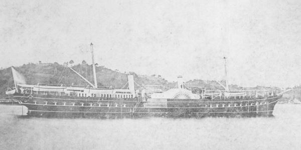 JINGEI,royal yacht of the Imperial Japanese Navy, at Yokosuka Naval Base.